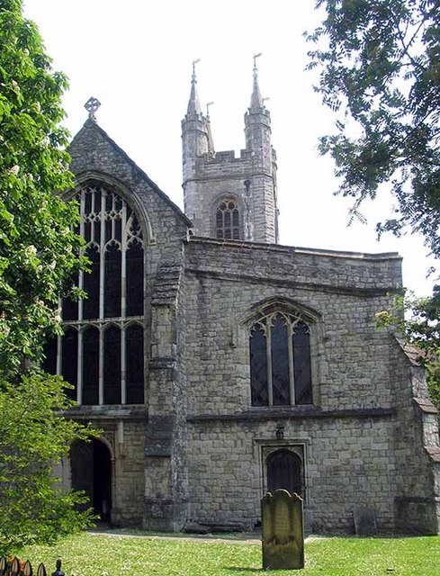 St Mary's Church, Ashford, Kent